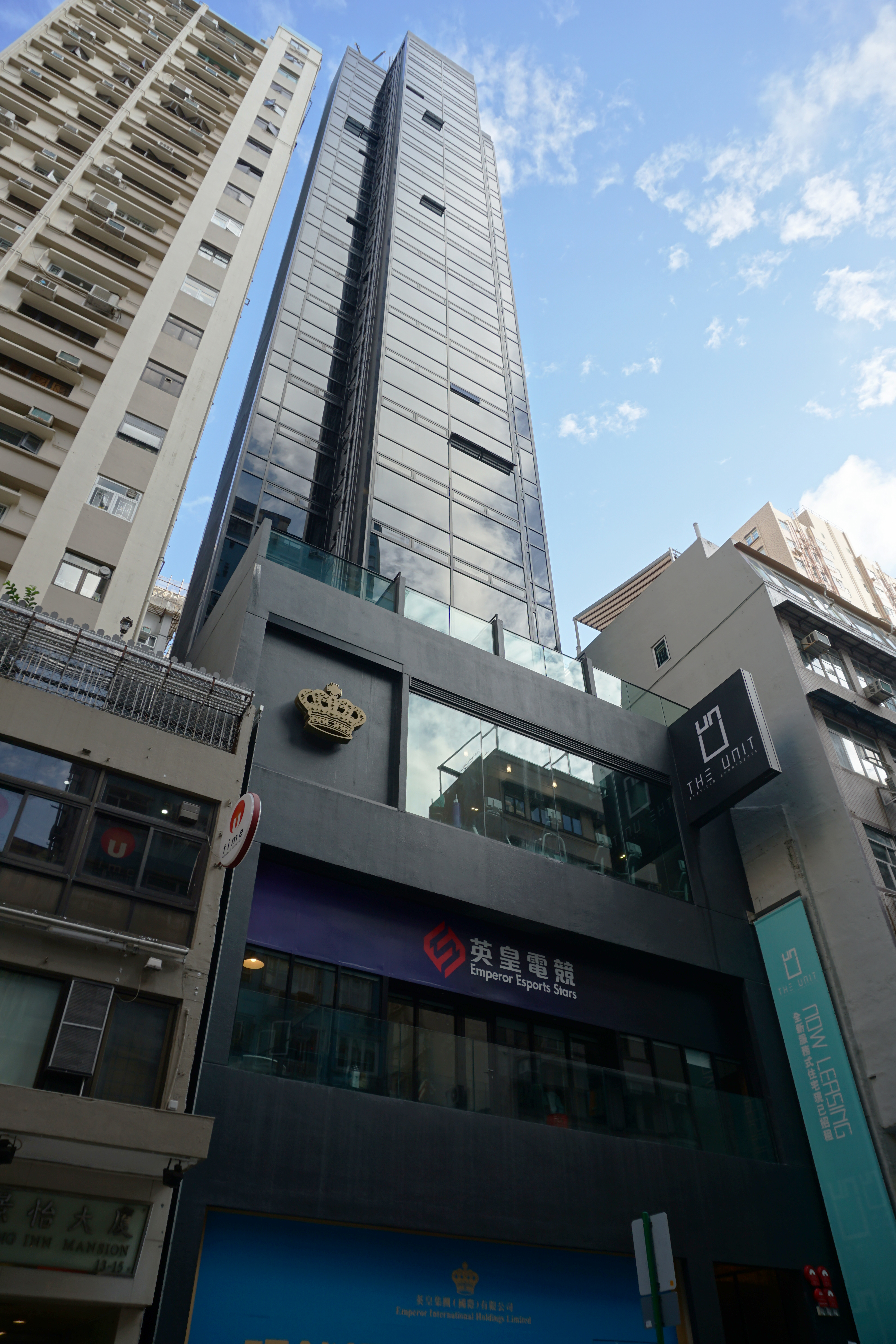 The Unit in Happy Valley, Hong Kong.